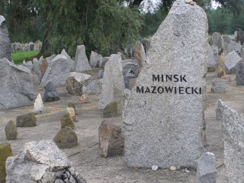 The memorial of Jews from Mińsk Mazowiecki (Poland) murdered in Treblinka II death camp.